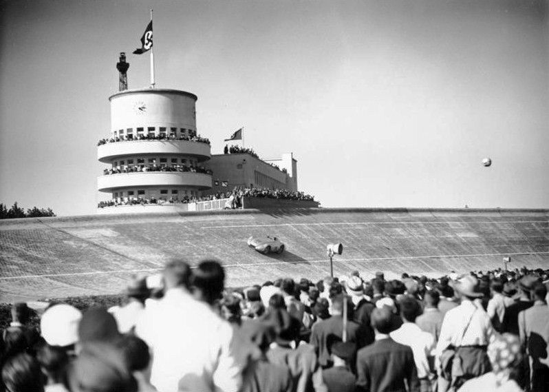 Streamlined Mercedes W25K in the banked AVUS north turn which had been added by early 1937. There had been no major Avus race in 1936. Following tests in April 1937 conducted by Auto Union and Mercedes race teams, the only race of the Silver Arrow era on the banked turn was held on 30 May 1937. Following Rosemeyers death in early 1938, no races were held in 1938 or 1939